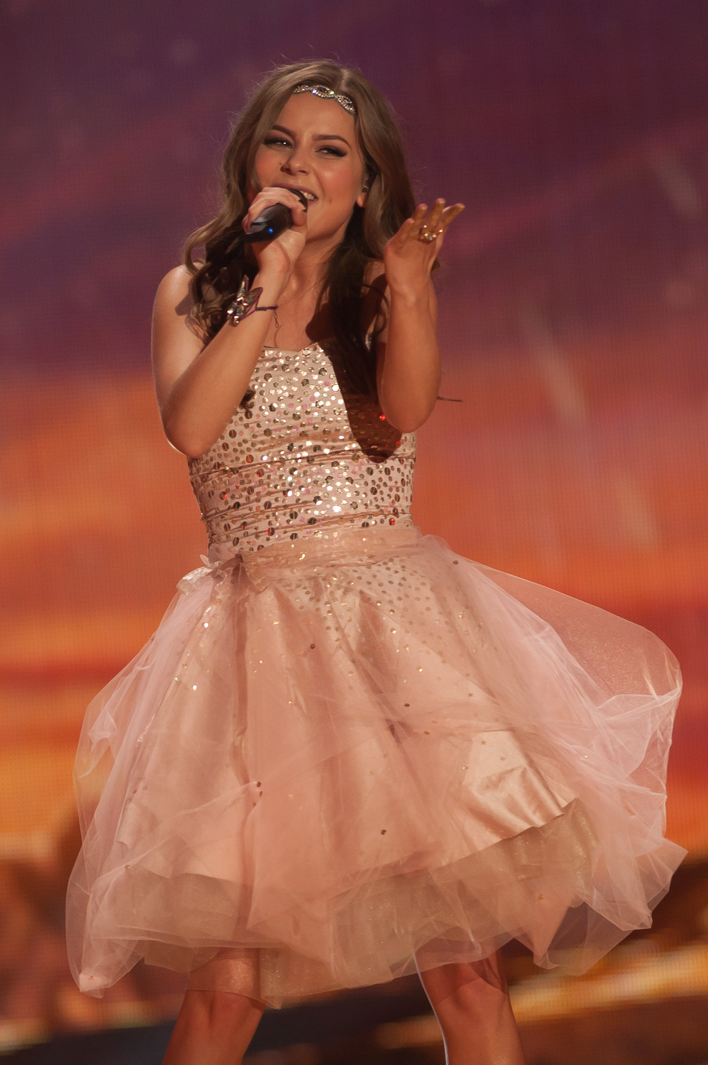 Eurovision Song Contest Vienna 2015: Maria Olafs